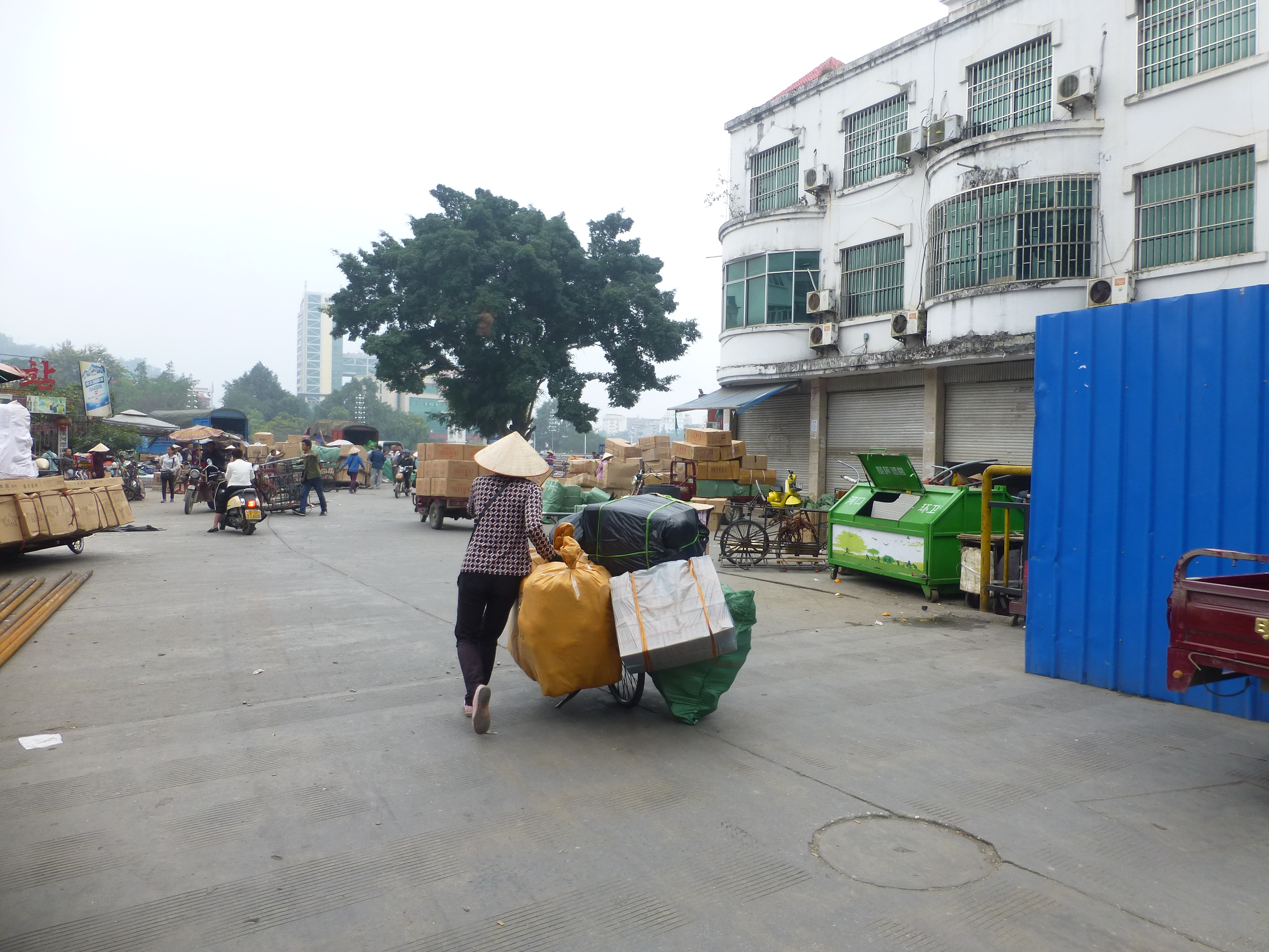 Cross-border traders, with their cargo bicycles or motor vehicles, outside of the border crossing in downtown Hekou